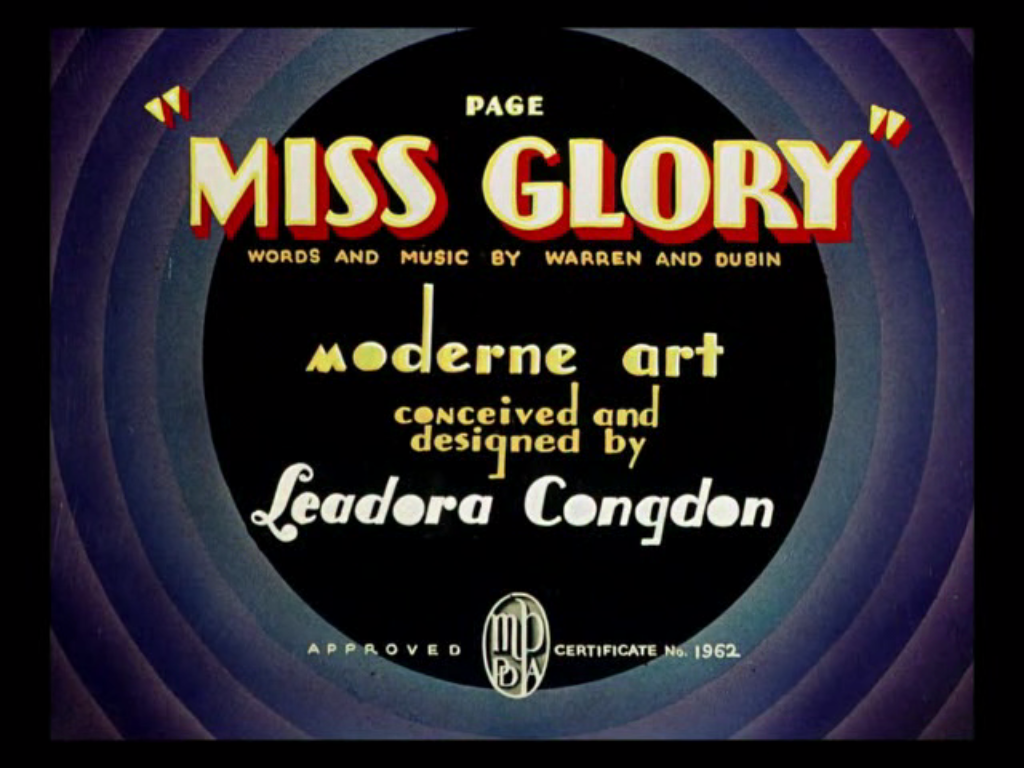 A single frame showing the title card of the 1936 film Page Miss Glory